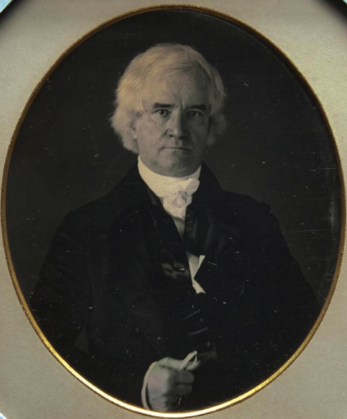 Daguerreotype of George Mifflin Dallas in 1848